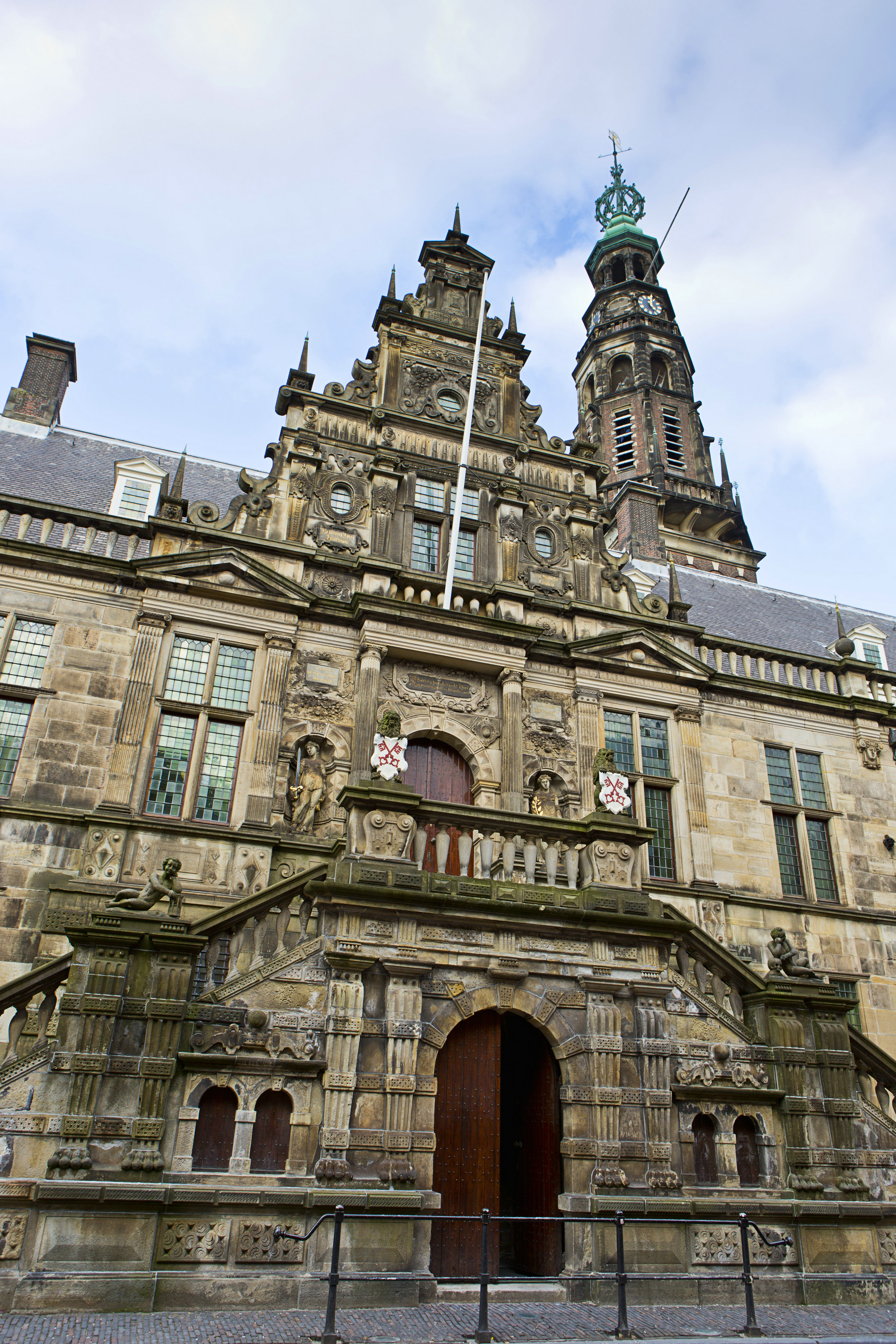 The main entrance of the town hall of Leiden on Breestraat, the Netherlands